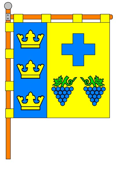 Flag of Zmiyivka Village